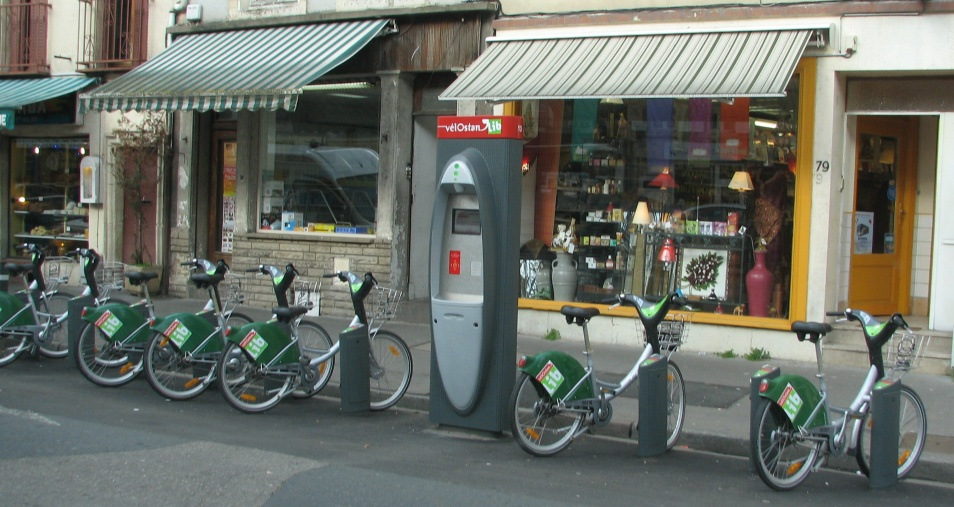 VeloStan Nancy